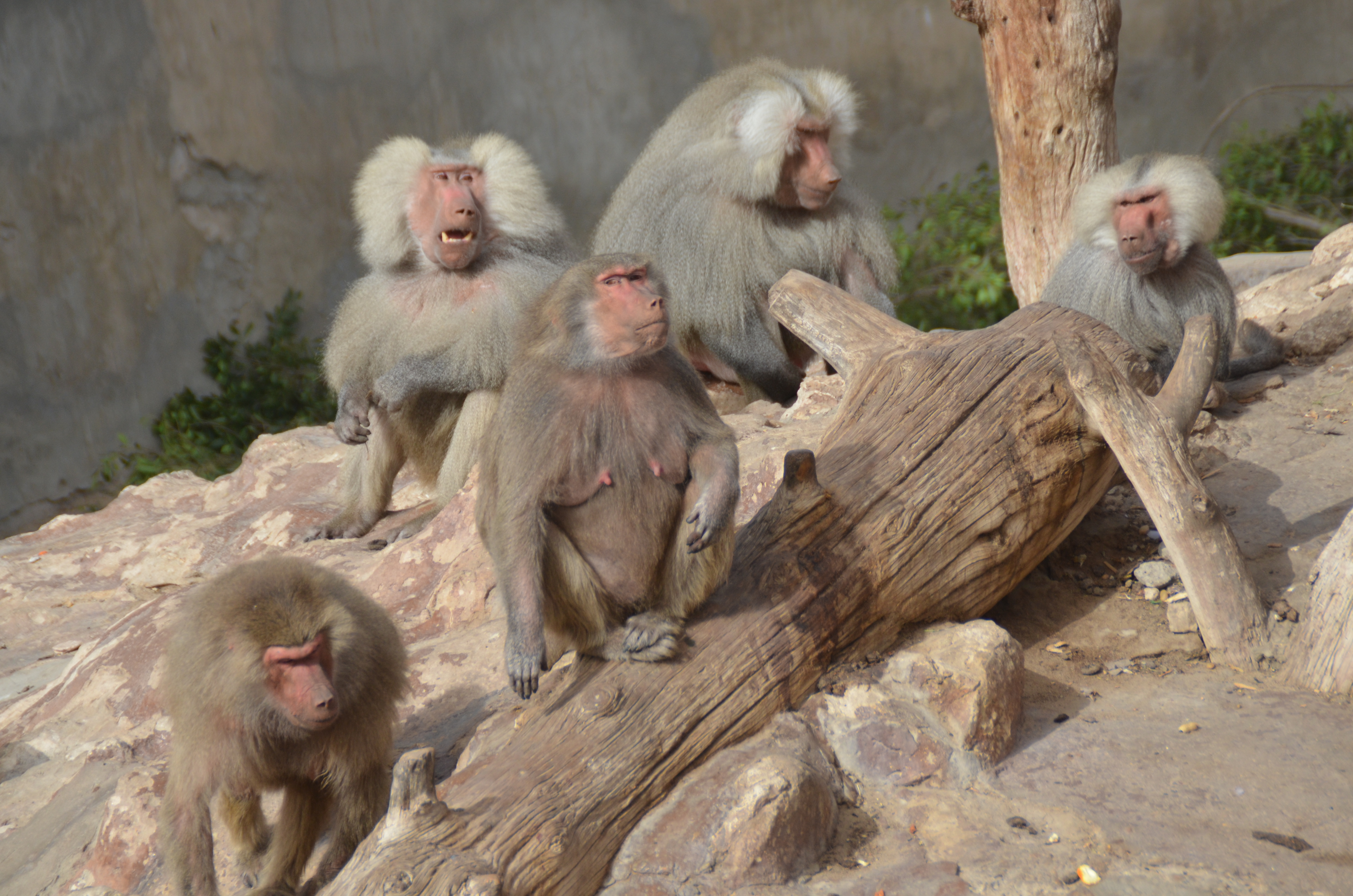 Hamadryas baboon in Alexandria Zoo , photo by Hatem Moushir